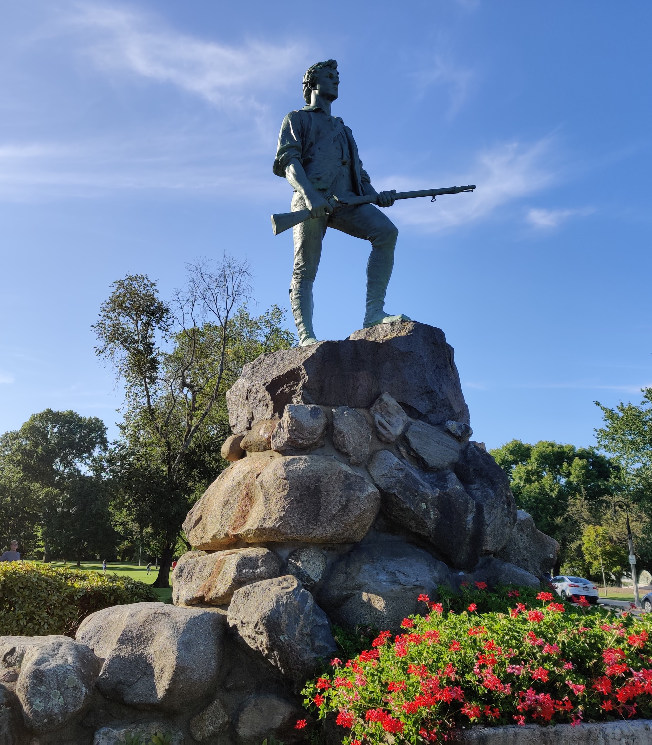 The statue of the Minuteman in Lexington, MA.